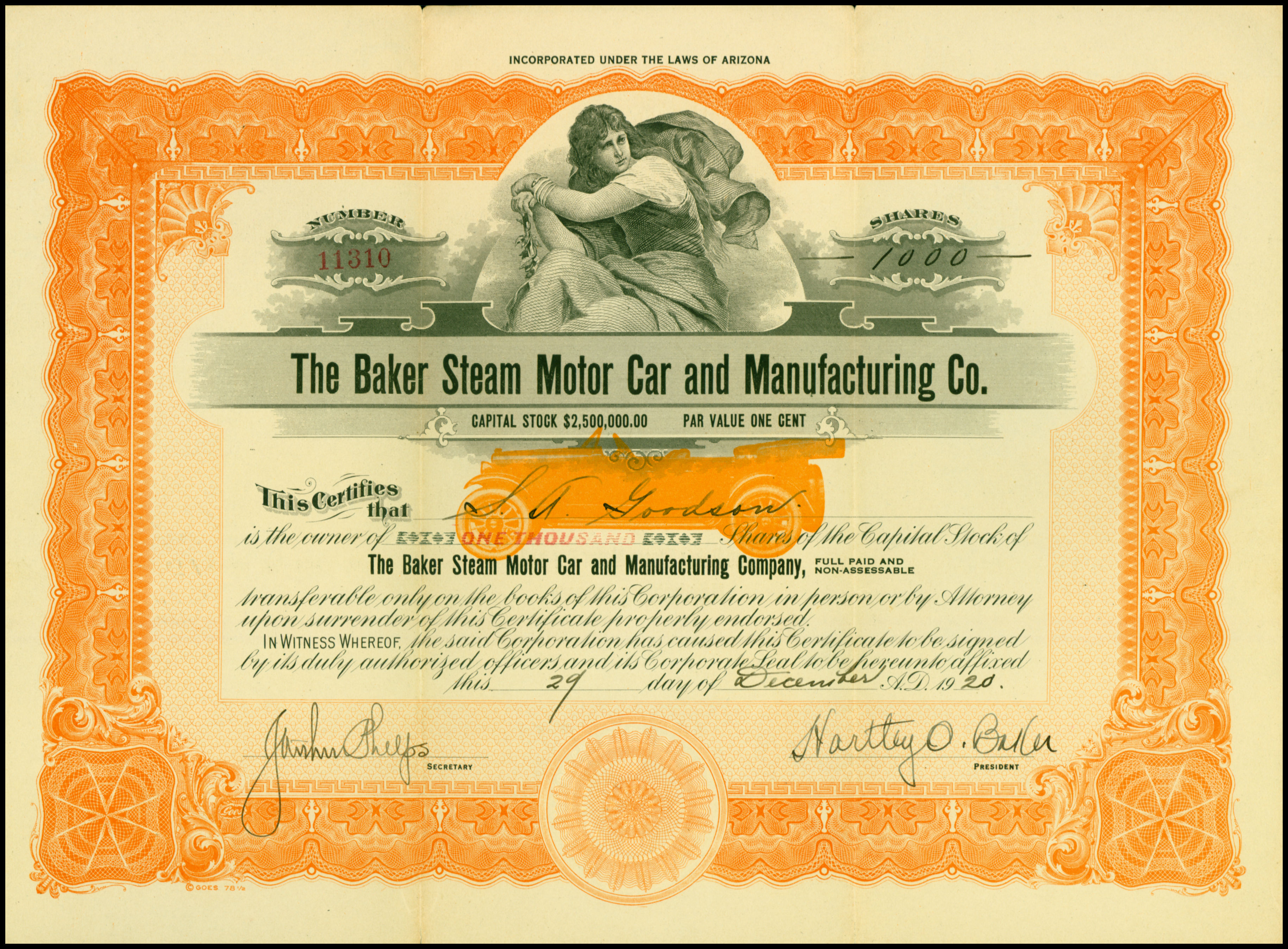 Share of the Baker Steam Motor Car and Manufacturing Co., issued 29. December 1920